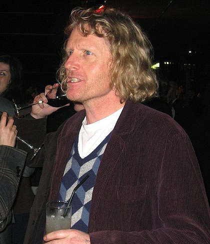 Grayson Perry at Private View of Gilbert & George Retrospective at Tate Modern